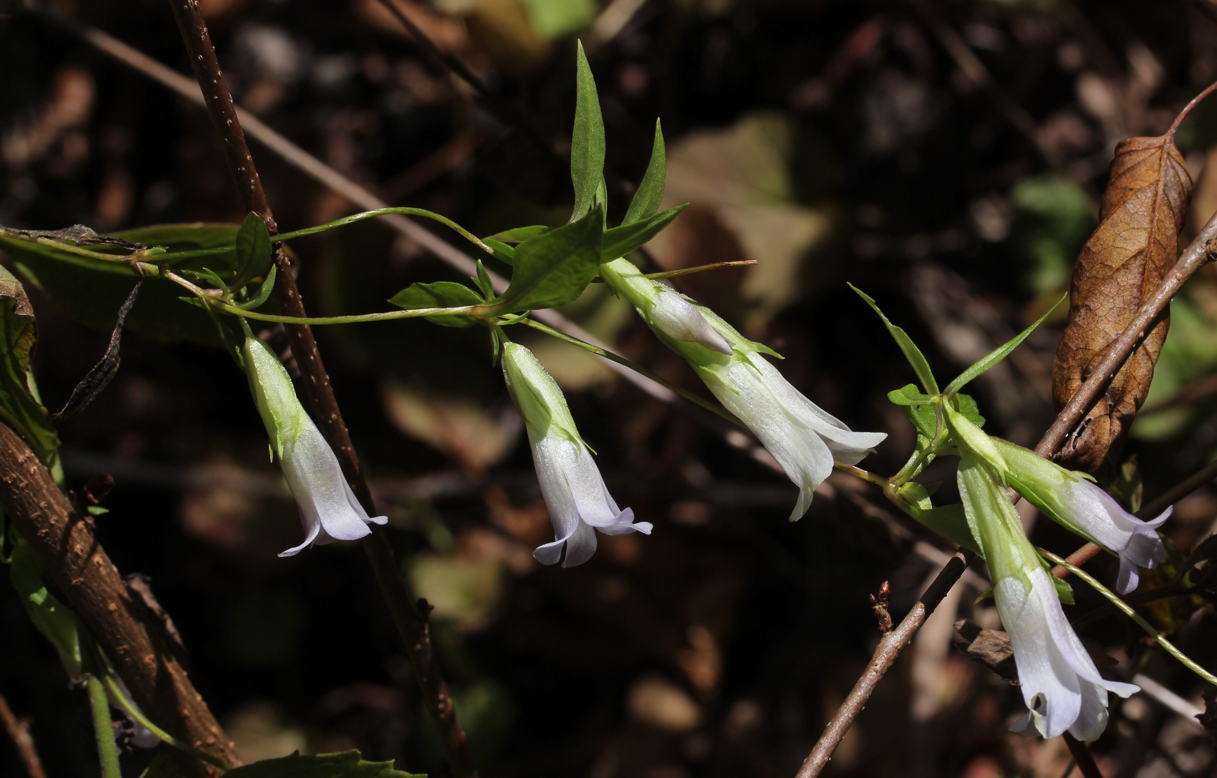 Pterygocalyx volubilis in Mount Shirakusa, Gero, Gifu prefecture, Japan.